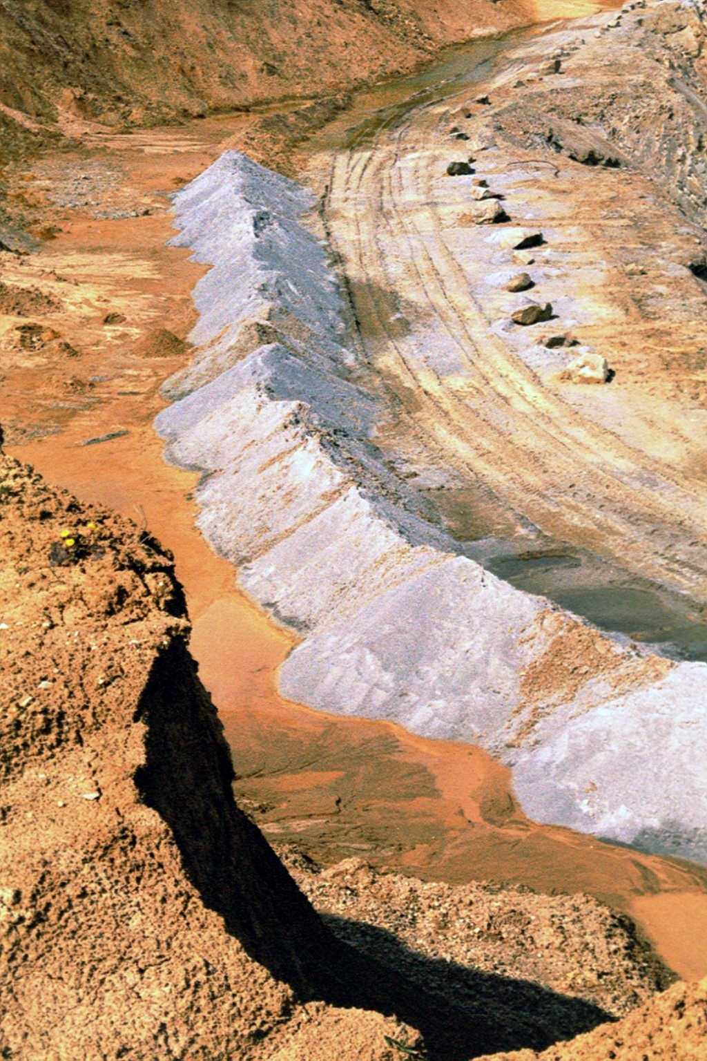 Quarry near Neustift/Ortenburg in Bavaria, Germany